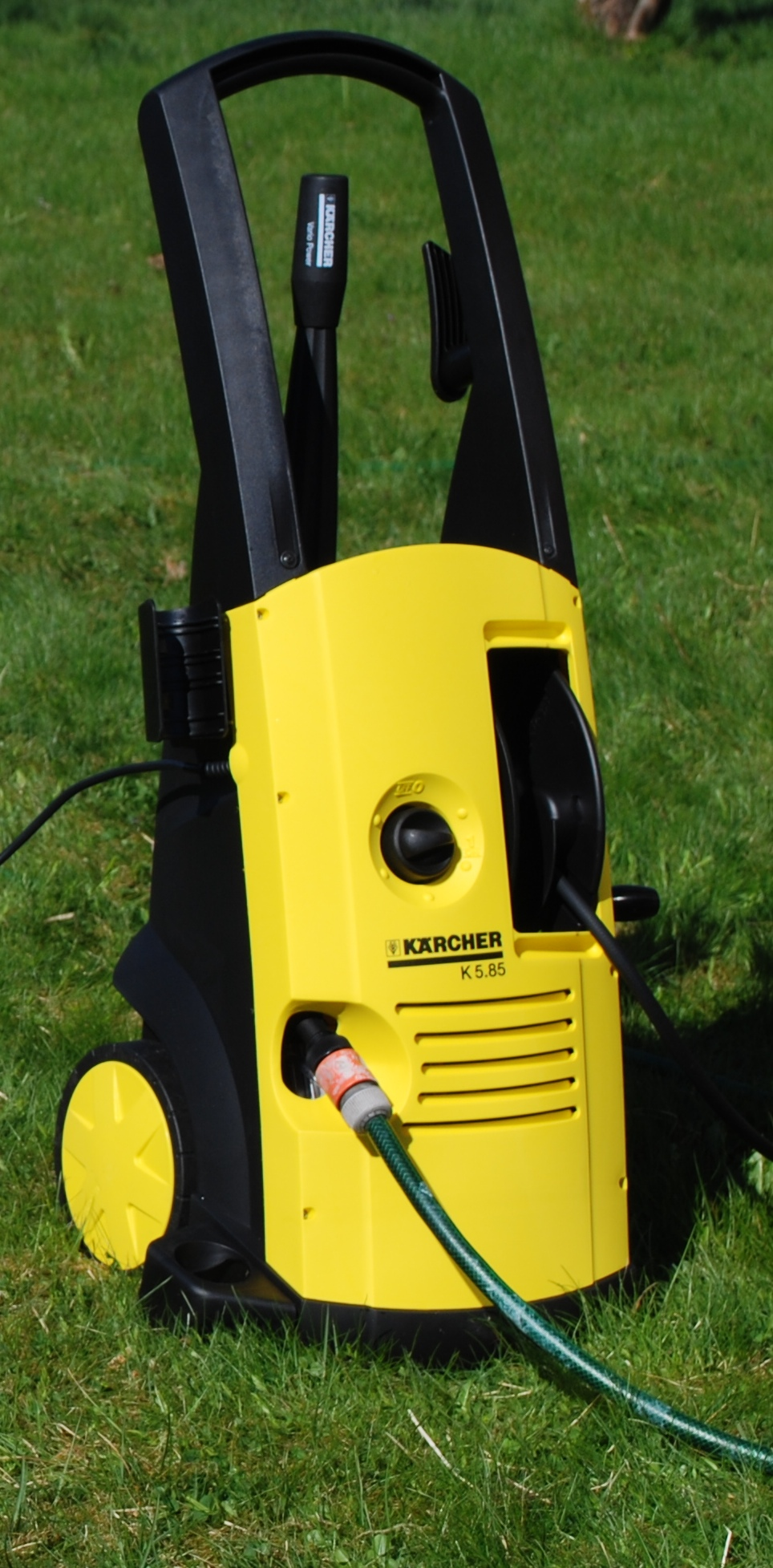 High pressure cleaner